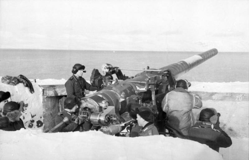 Information added by Wikimedia users.